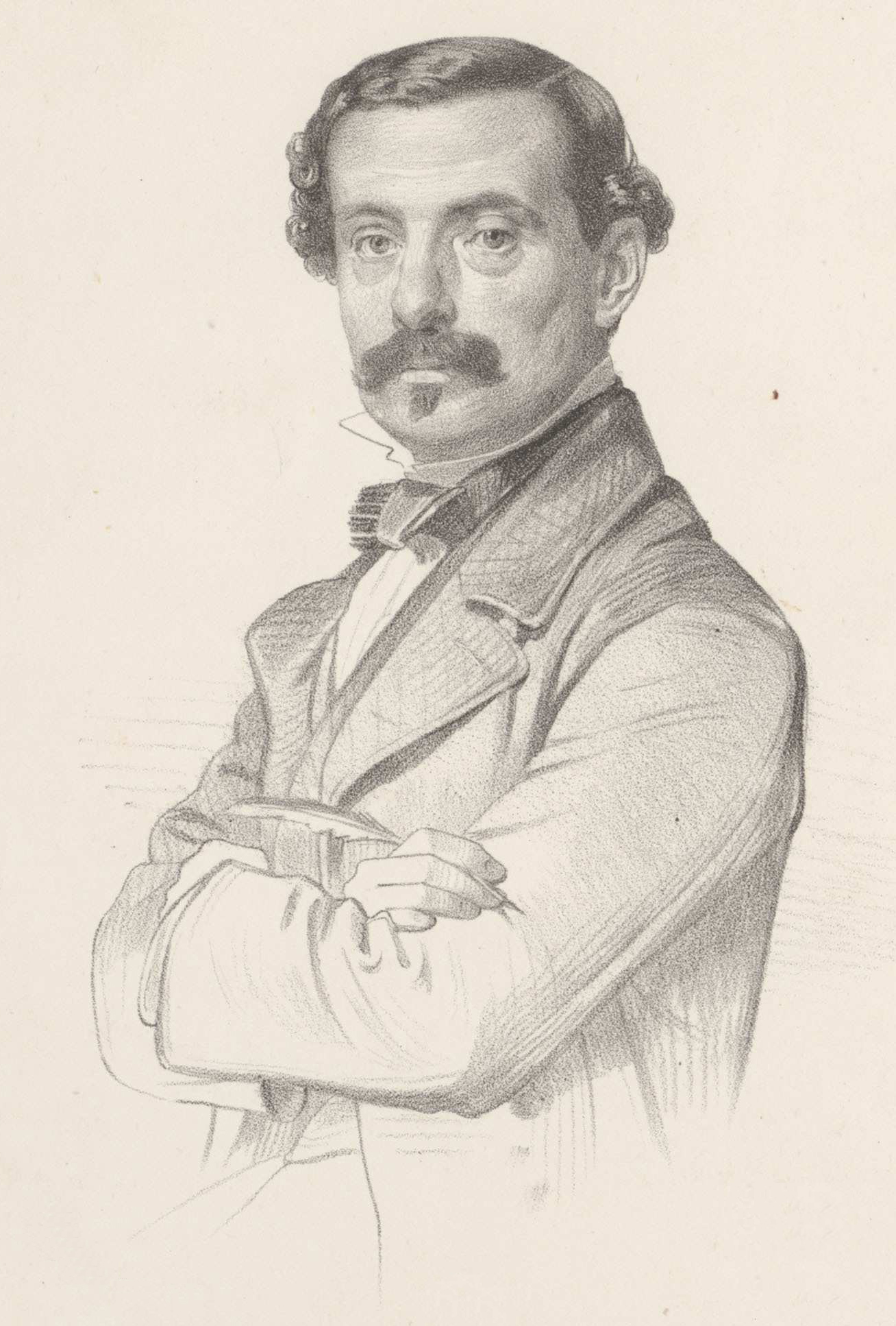 Francisco Camprodón (1816-1870), 1854.